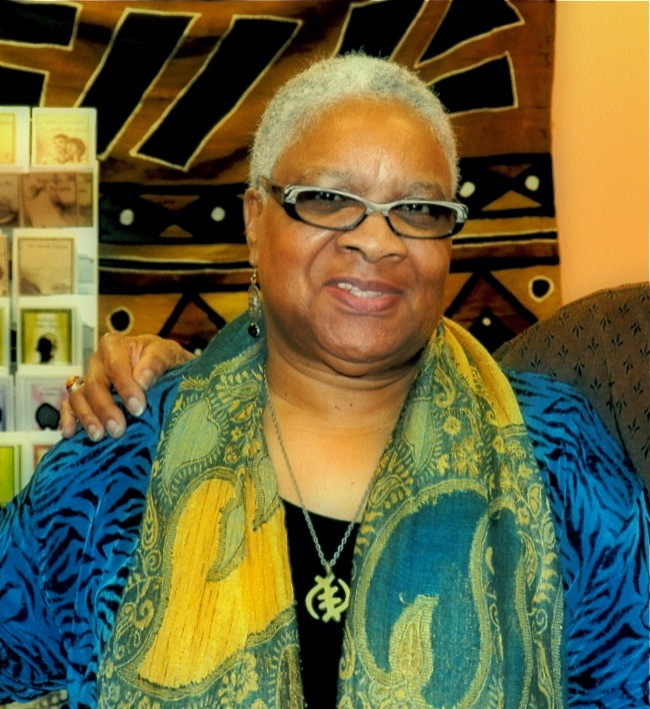 Avel Gordly, former Oregon State Senator, and former State Representative.